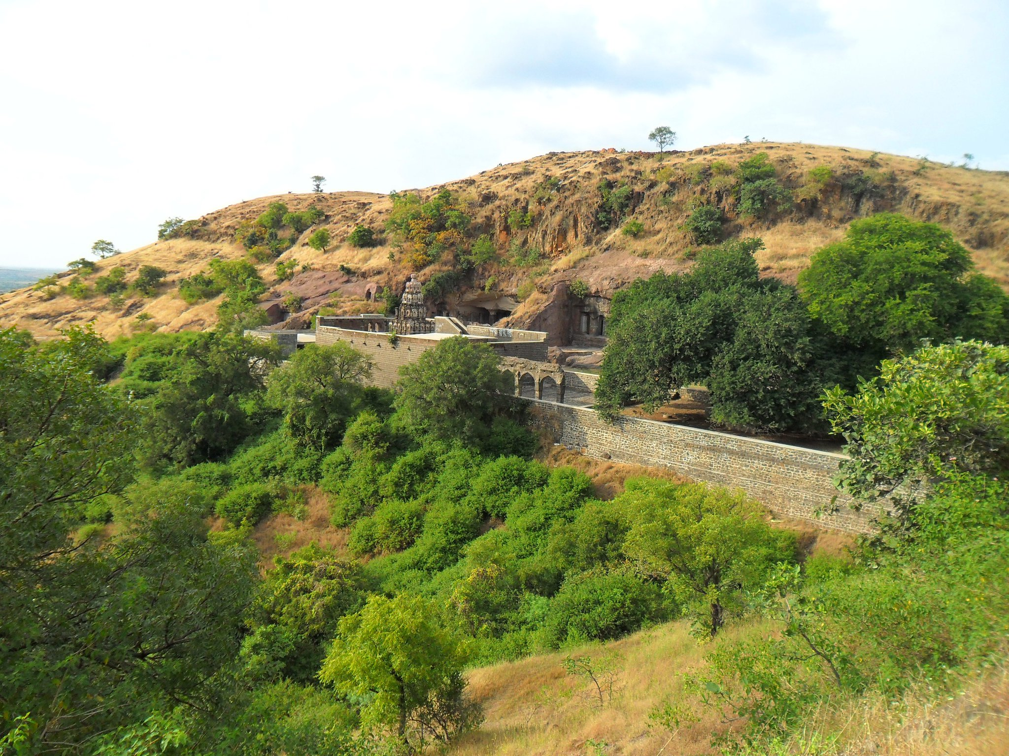 Dharashiv Leni